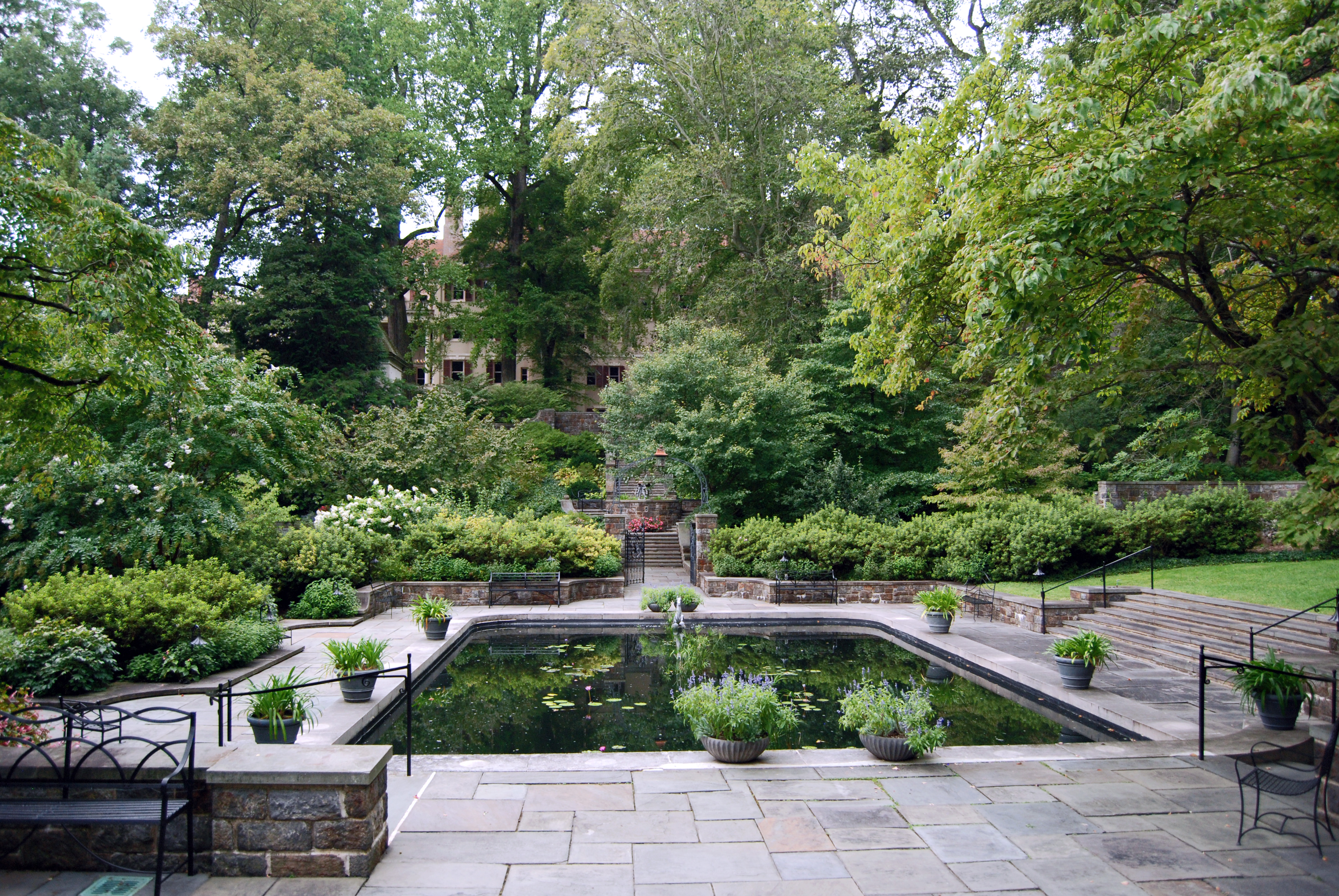 Winterthur is the former country estate of Henry Francis du Pont (1880-1969) / The View of the House from the Reflecting Pool